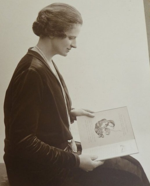 Photo of Countess Manvers c. 1920